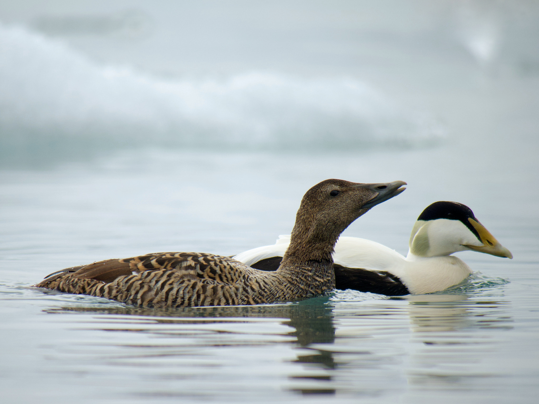 500px provided description: A pair of Common Eiders in J?kuls?rl?n (aka the Glacier Lagoon) in Iceland. The female in the foreground bobs her head and vocalizes. [#lake ,#bird ,#wildlife ,#Iceland ,#Somateria mollissima ,#Common Eider]